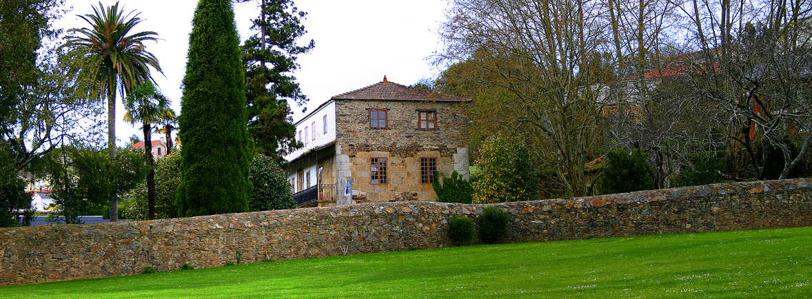 Pazo de Cela, a XVII century mansion in the parish of Cela, municipality of Cambre, province of A Coruña, Galicia, Spain.